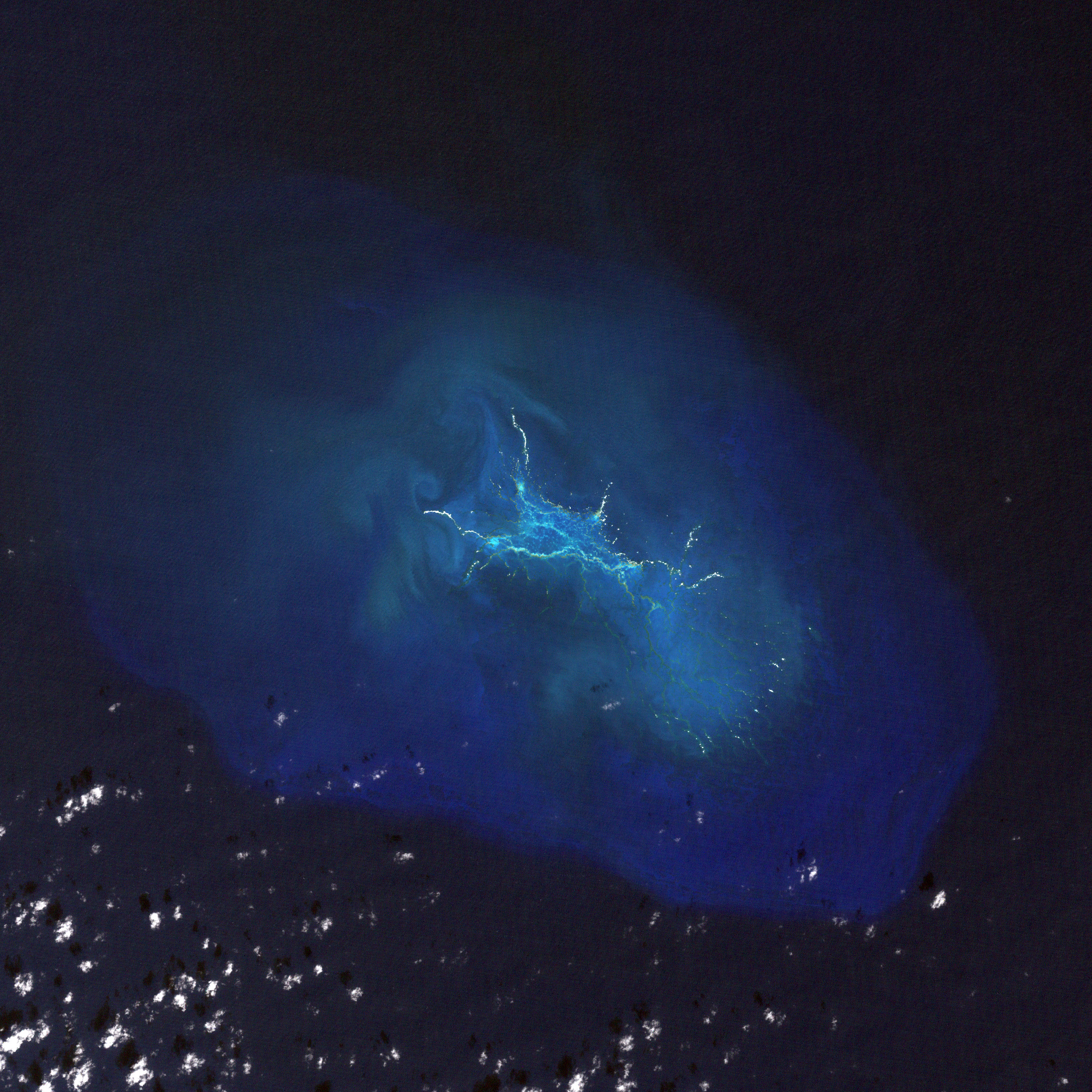 Maro Reef, Northwestern Hawaiian Islands - Satellite image from USGS' Landsat7 Satellite